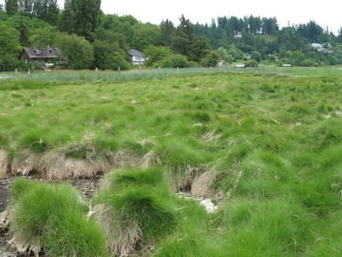 Spartina patens-Common name: saltmeadow cordgrass